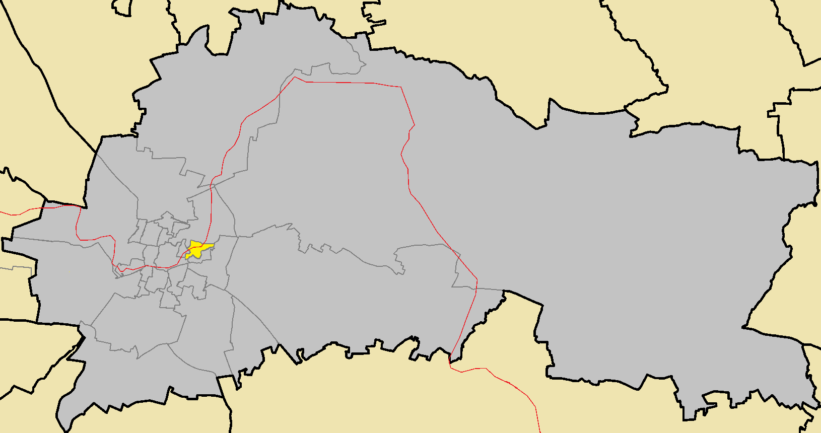 Ayios Kassianos in Nicosia Municipality (de jure).